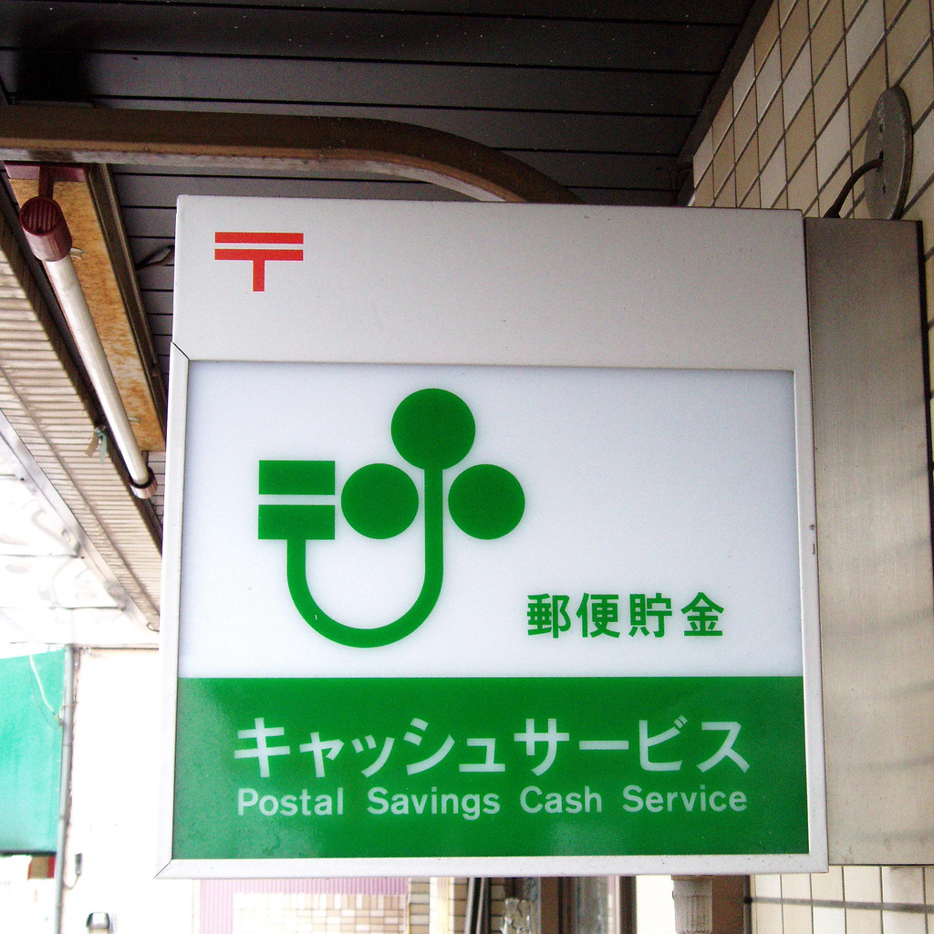 Logo of Postal Savings in Japan